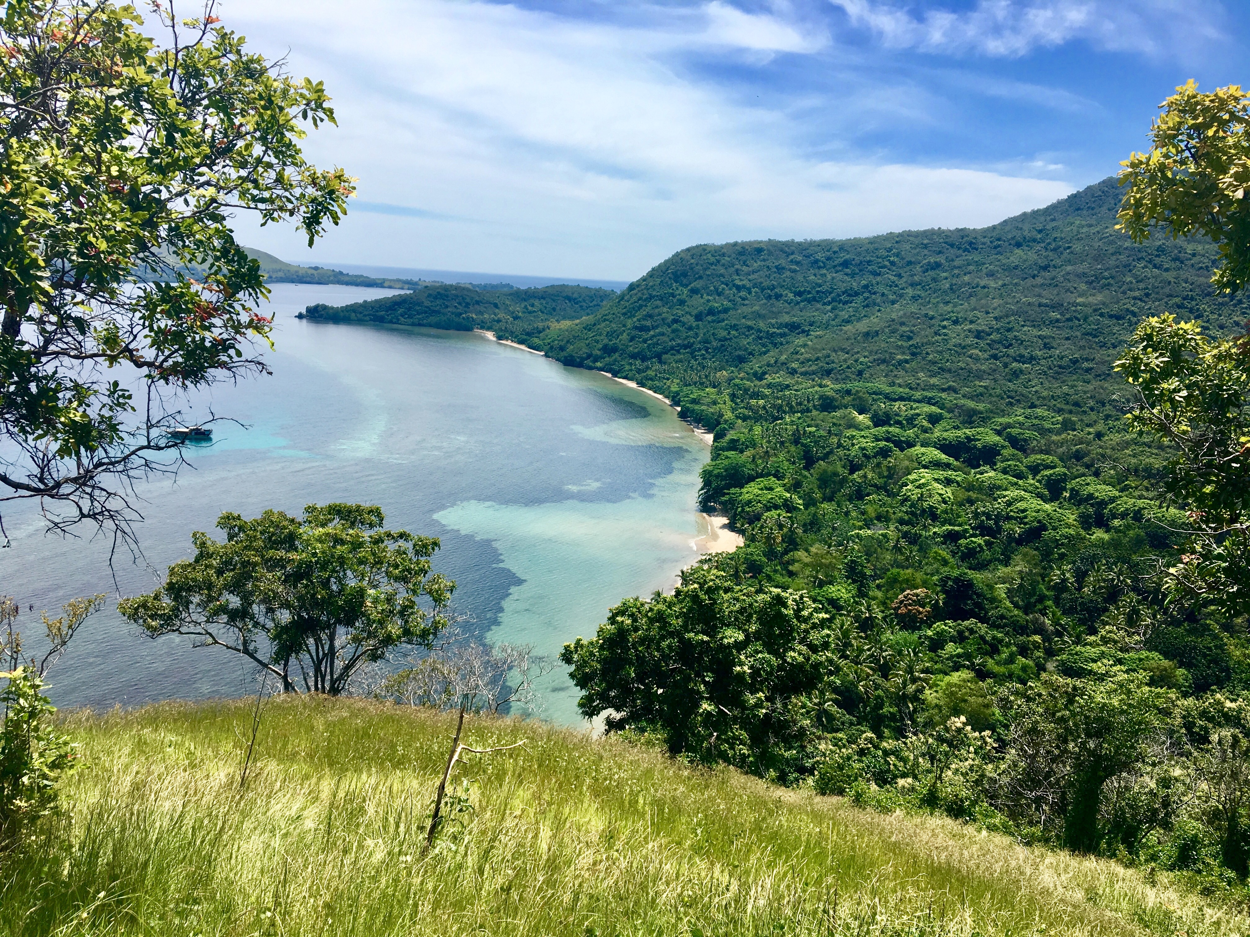 Dongalan Beach on the west side of the Kokotuku Peninsula